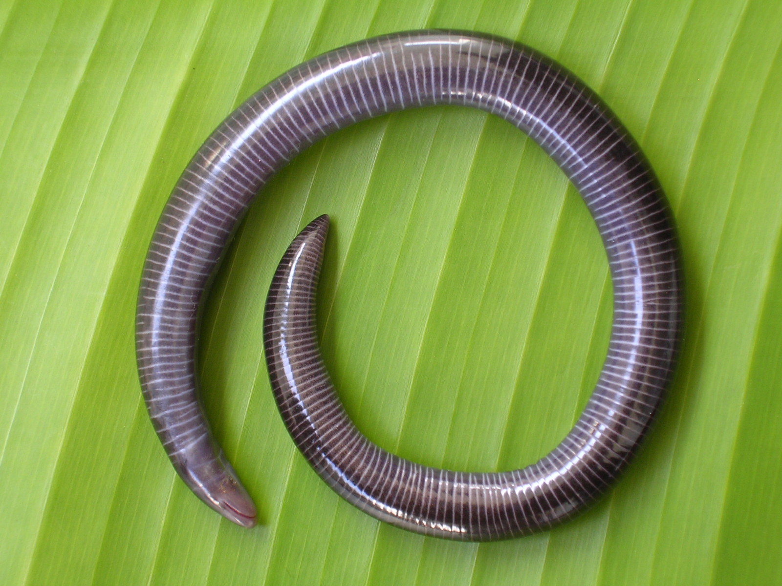 Uraeotyphlus menoni habitus